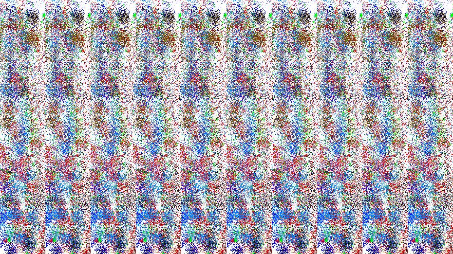 In this picture you can see, once focused, an opening in the center of the plane-shaped window with shutters on the sides, which reveals a flat bottom surface parallel to the "wall" window.